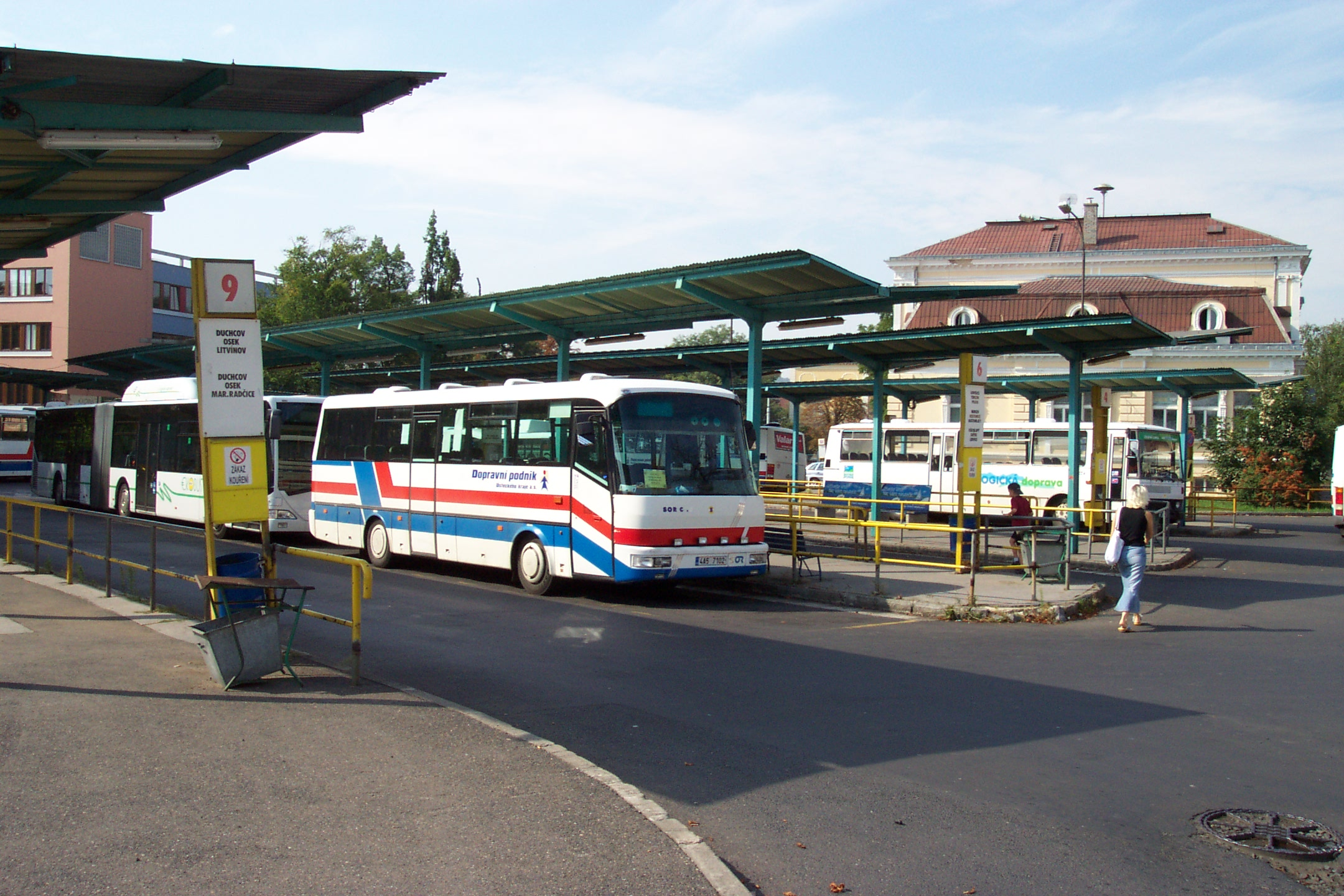 Teplice, Czech republic, bus type SOR C 9,5 at central bus station - autobus typu SOR C 9,5 v Teplicích na ÚAN